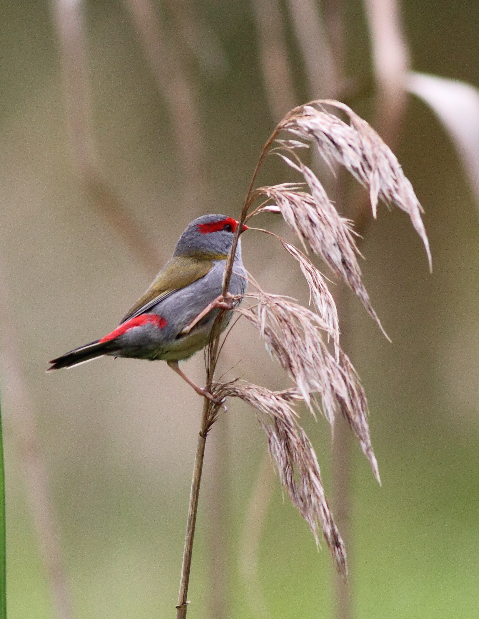 A Red-browed Finch at Coolart Wetlands, Mornington Peninsula, Victoria, Australia.